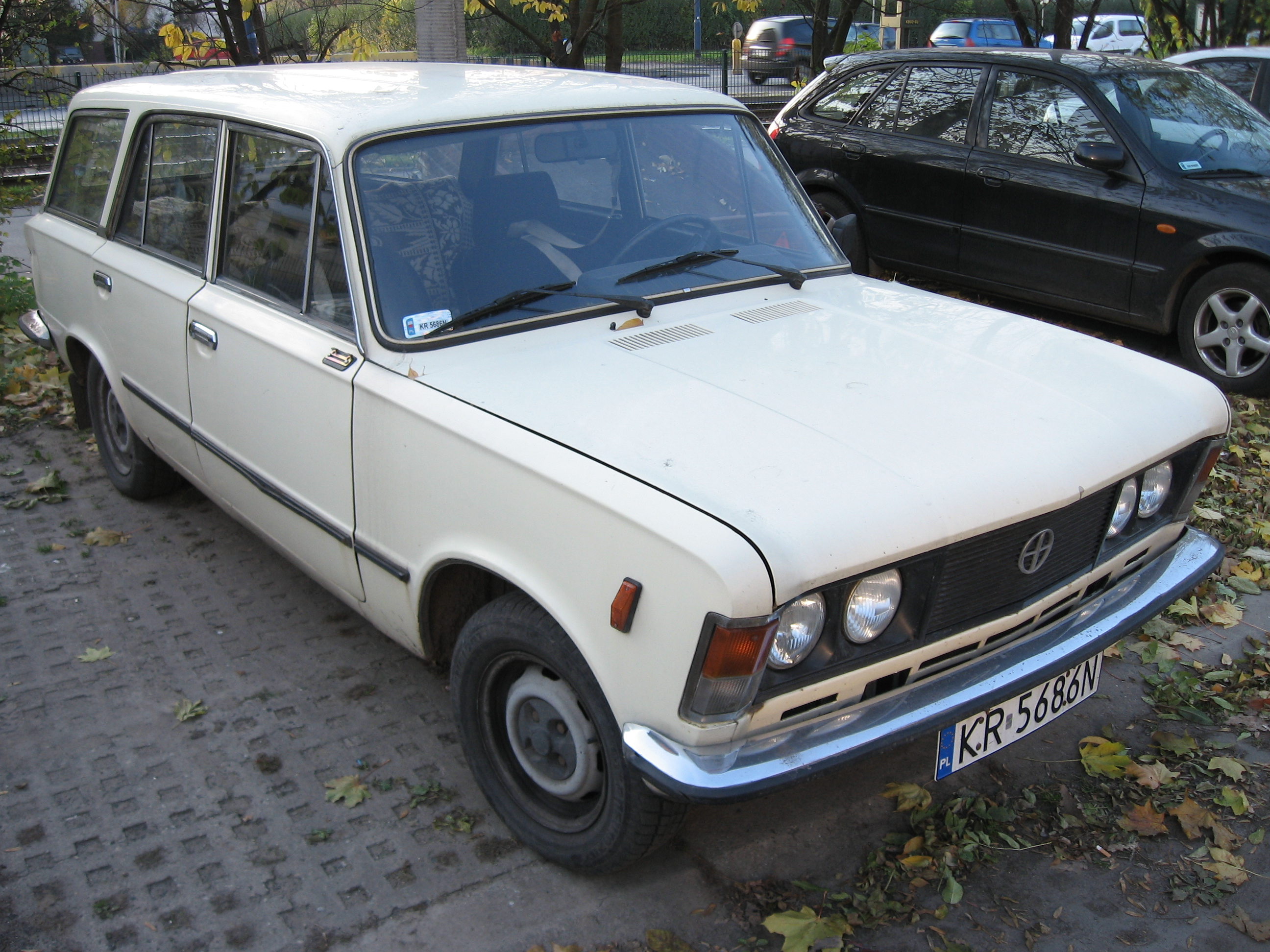 Beige FSO 125p Kombi on parking lot at Osiedle Podwawelskie in Kraków. This particular example was produced between April 1984 and January 1986.